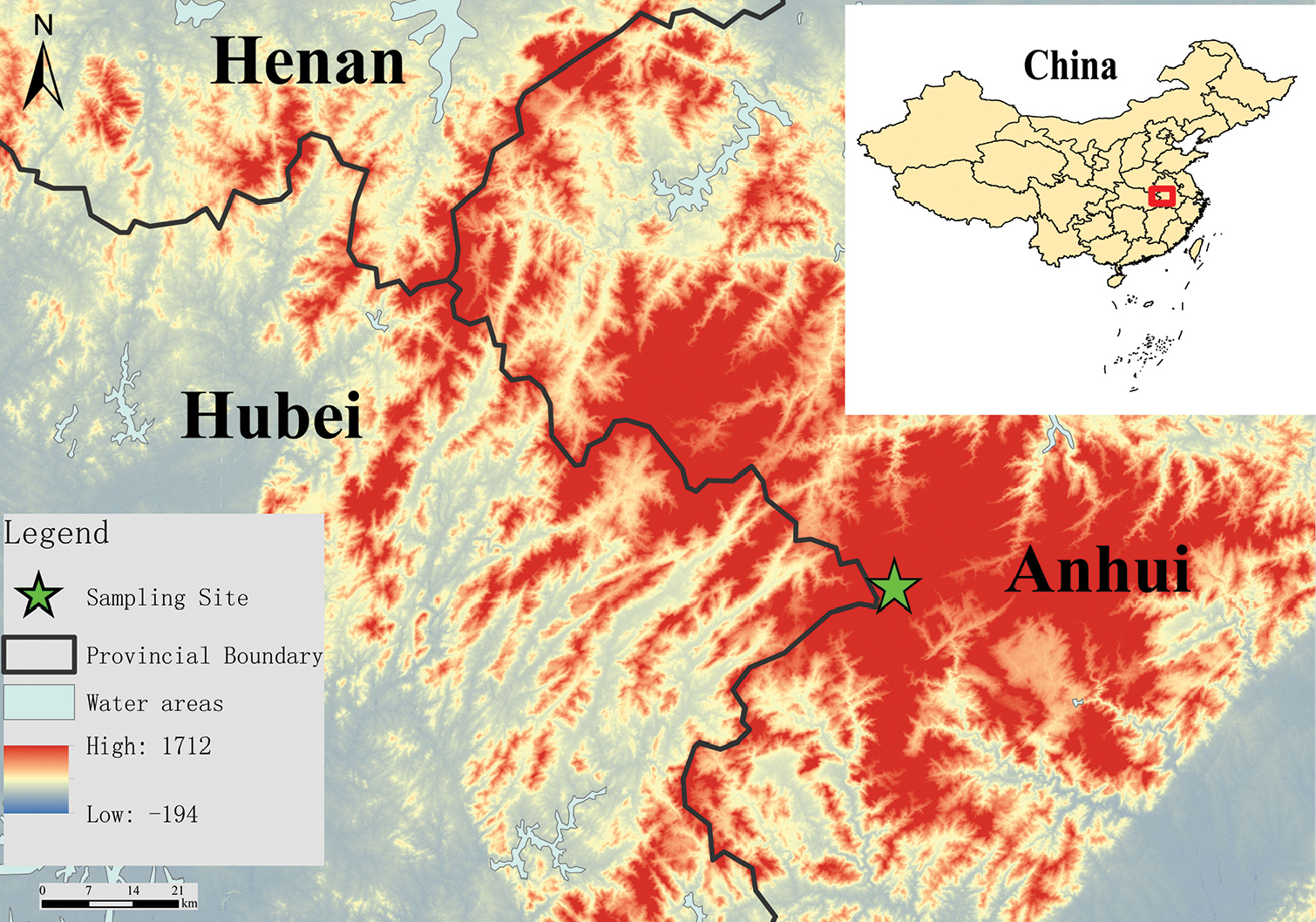 Distribution of Rana dabieshanensis sp. n. in Dabie Mountains (Anhui, Hubei, and Henan provinces, central China). Occurrence record is marked with green mark.